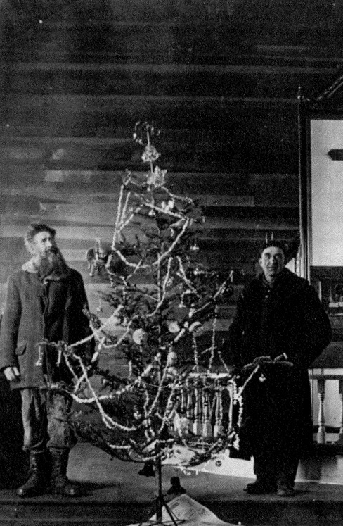 Two men and a Christmas tree in the interior of Bethesda Lutheran Church, near Appam, North Dakota, 1920.